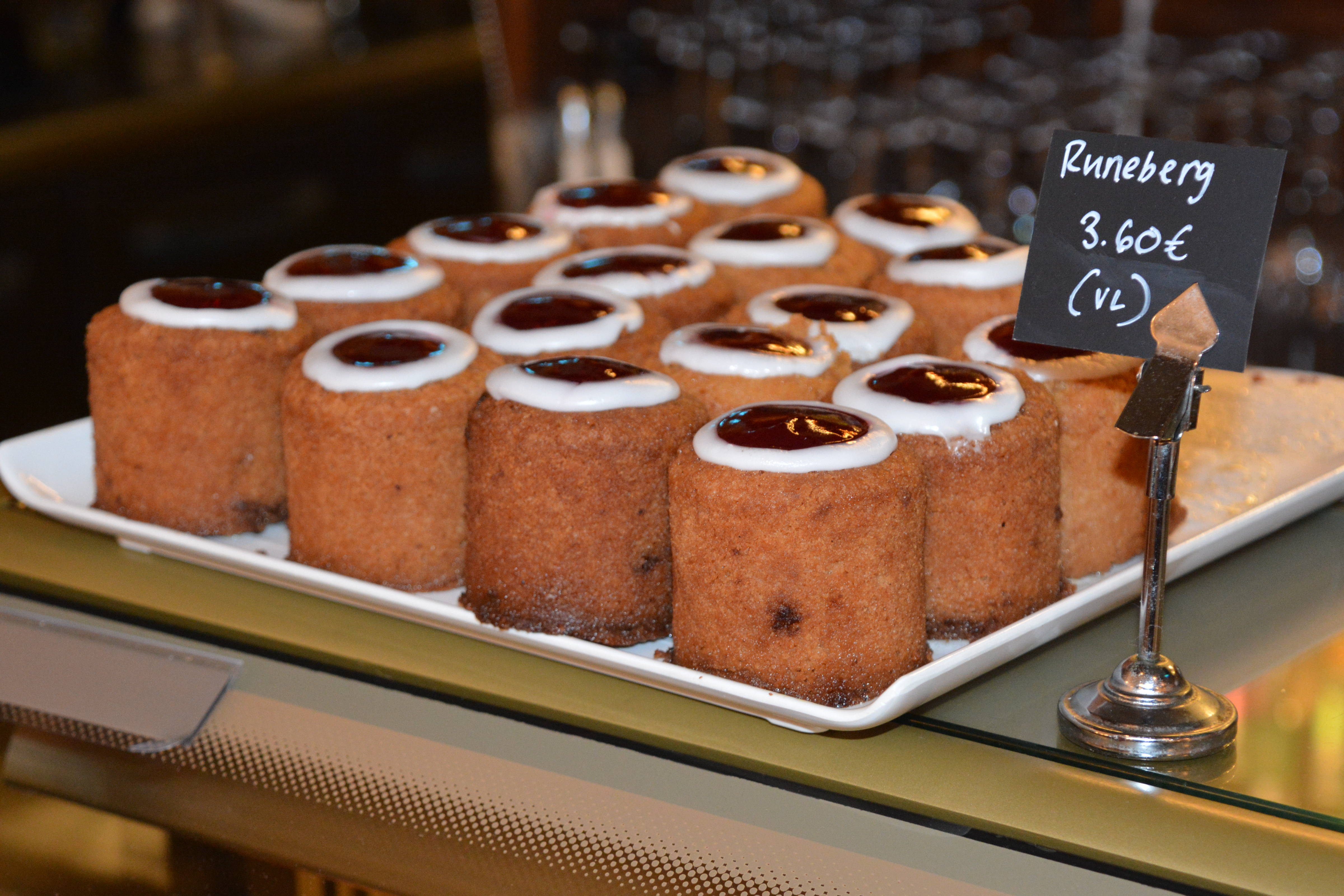 Runeebergstårtor, Café Tin Tin Tango, Tölö torg, Helsingfors, 2016 Runebergin torttuja, Kahvila Tin Tin Tangossa, Töölön tori, Helsinki, 2016